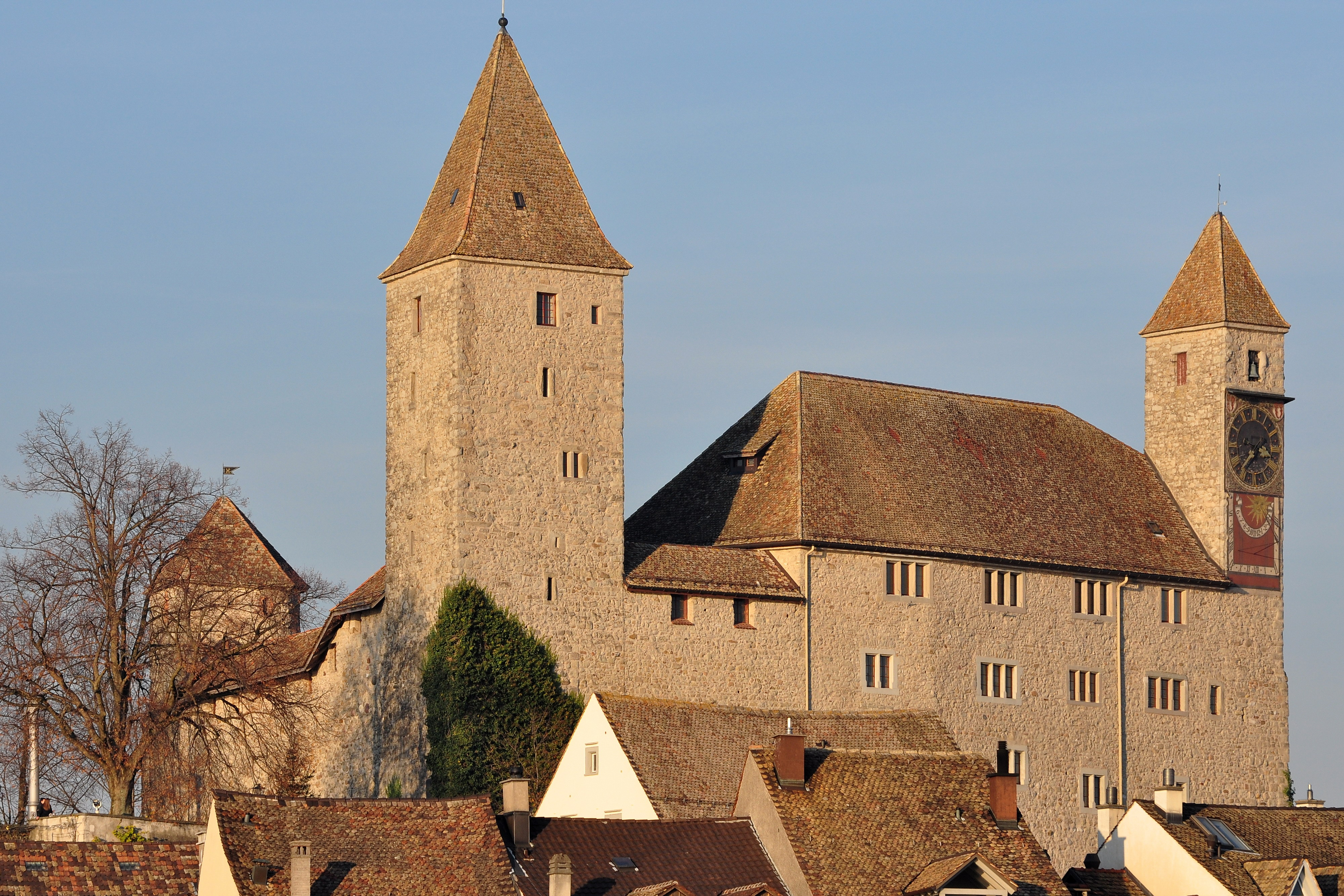 Rapperswil (Switzerland) : Rapperswil castle as seen from the so-called Seedamm.